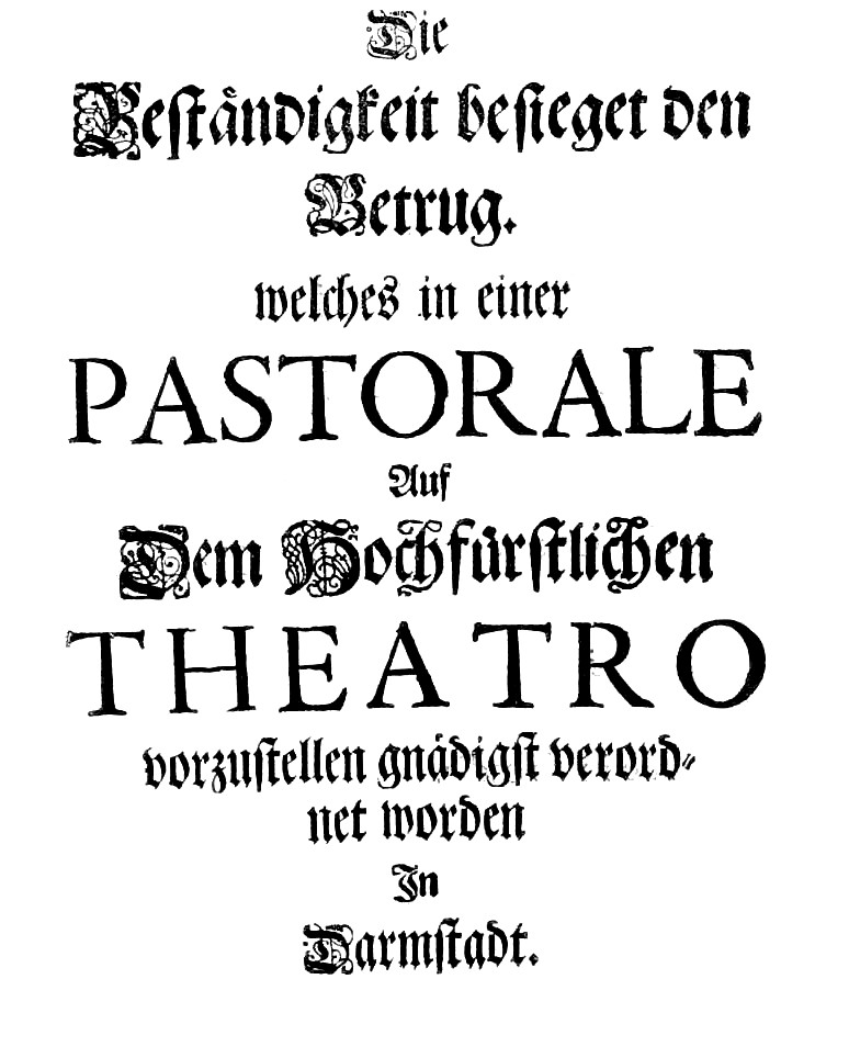 Christoph Graupner - La costanza vince l'inganno - german titlepage of the libretto from 1719